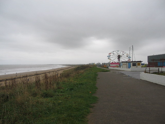 Wilsthorpe Cliff, Wilsthorpe, East Riding of Yorkshire.Looking south along Wilsthorpe Cliff on a wet and blustery October Sunday morning.